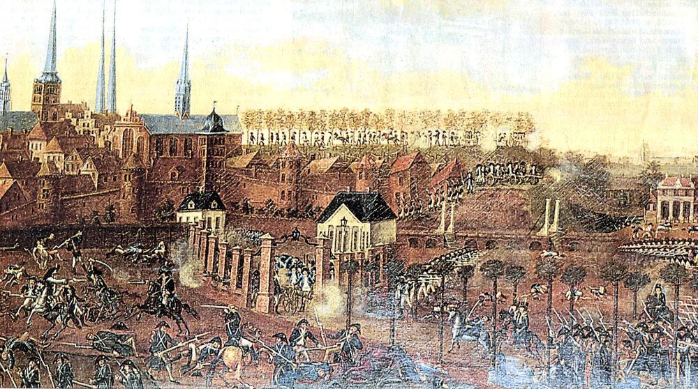 Fights at the Burgtor in Lübeck November 6, 1806.